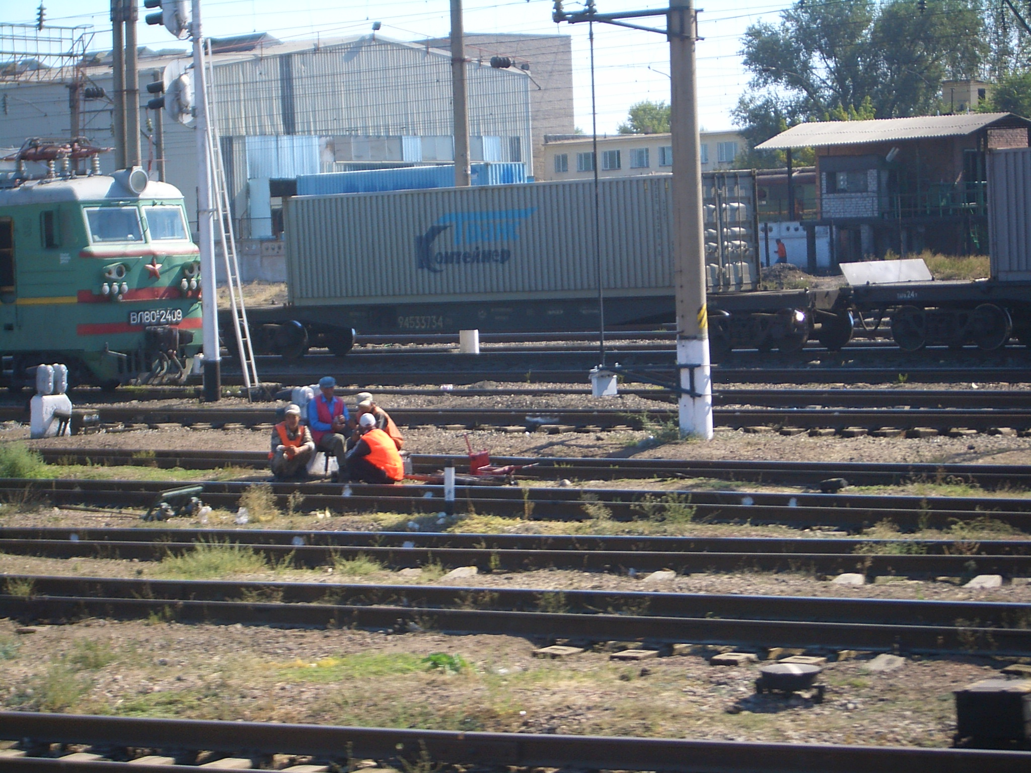 Shu, Kazakhstan, is an important rail junction, where the northbound line to Astana branches off the Turksib (Tashkent-Almaty) mainline. Note the red star on the electric locomotive in the background, a reminder of the Soviet past.